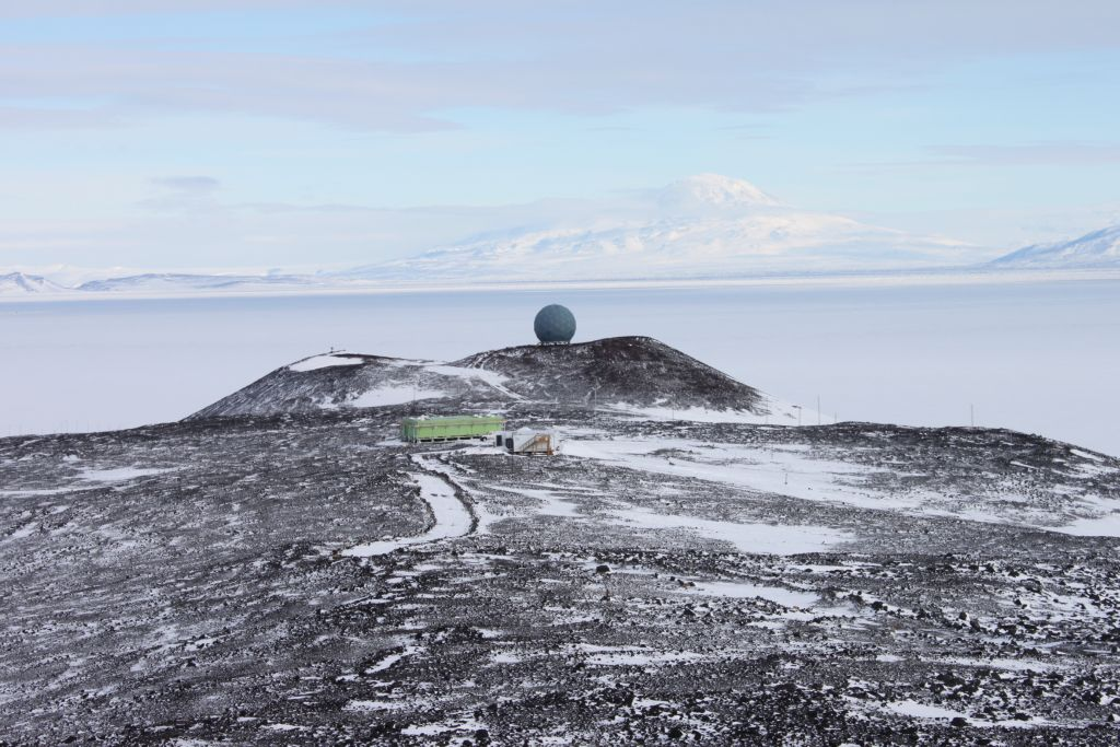 Arrival Heights ASAP 122. Looking south from just below Second Crater. Mount Discovery in background. NIWA and USAP atmospheric laboratories in foreground